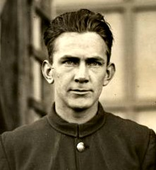 Portrait of Ivor McIntyre cropped from a photograph of McIntyre and Lawrence Wackett.